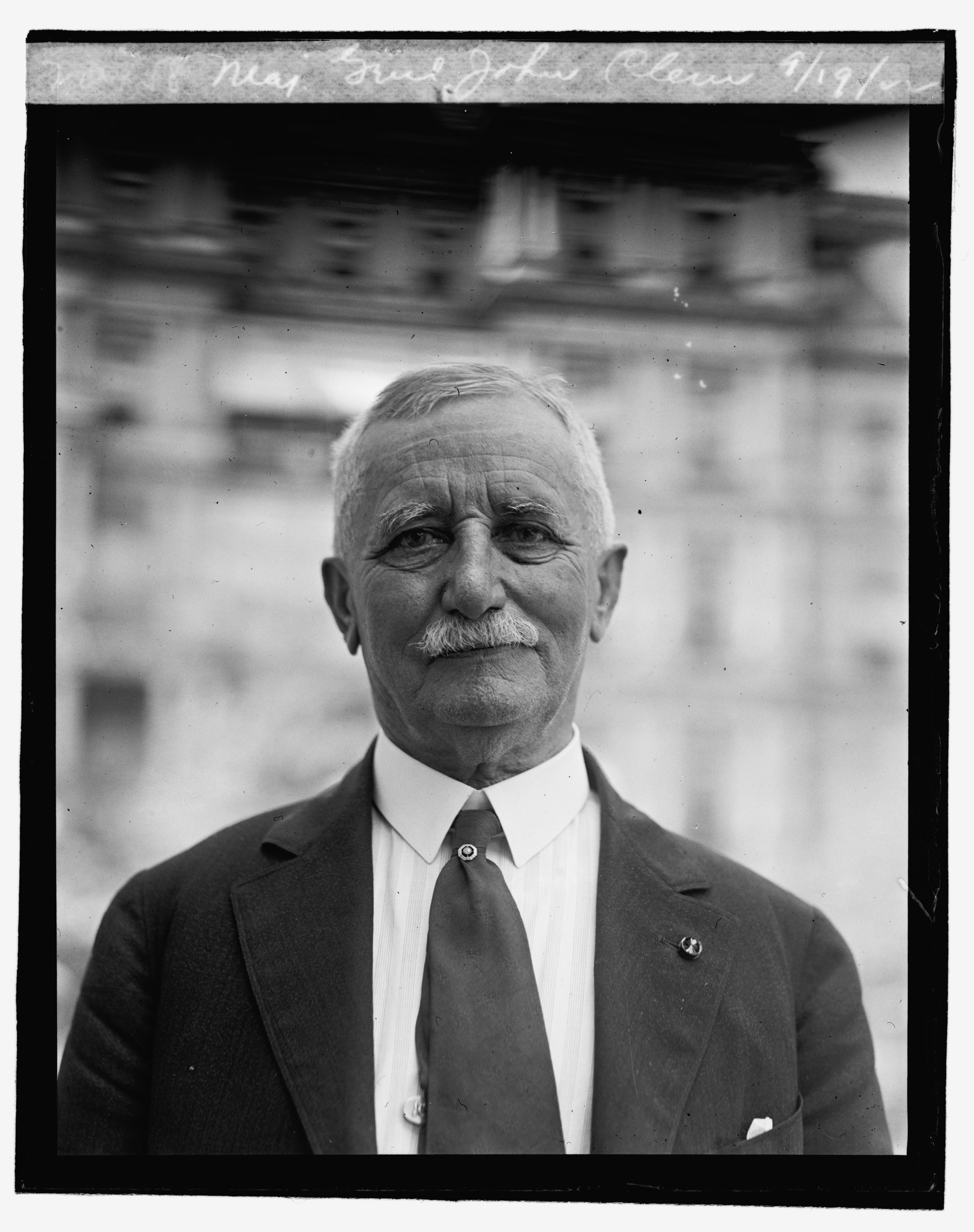 Maj. Genl. John Clem